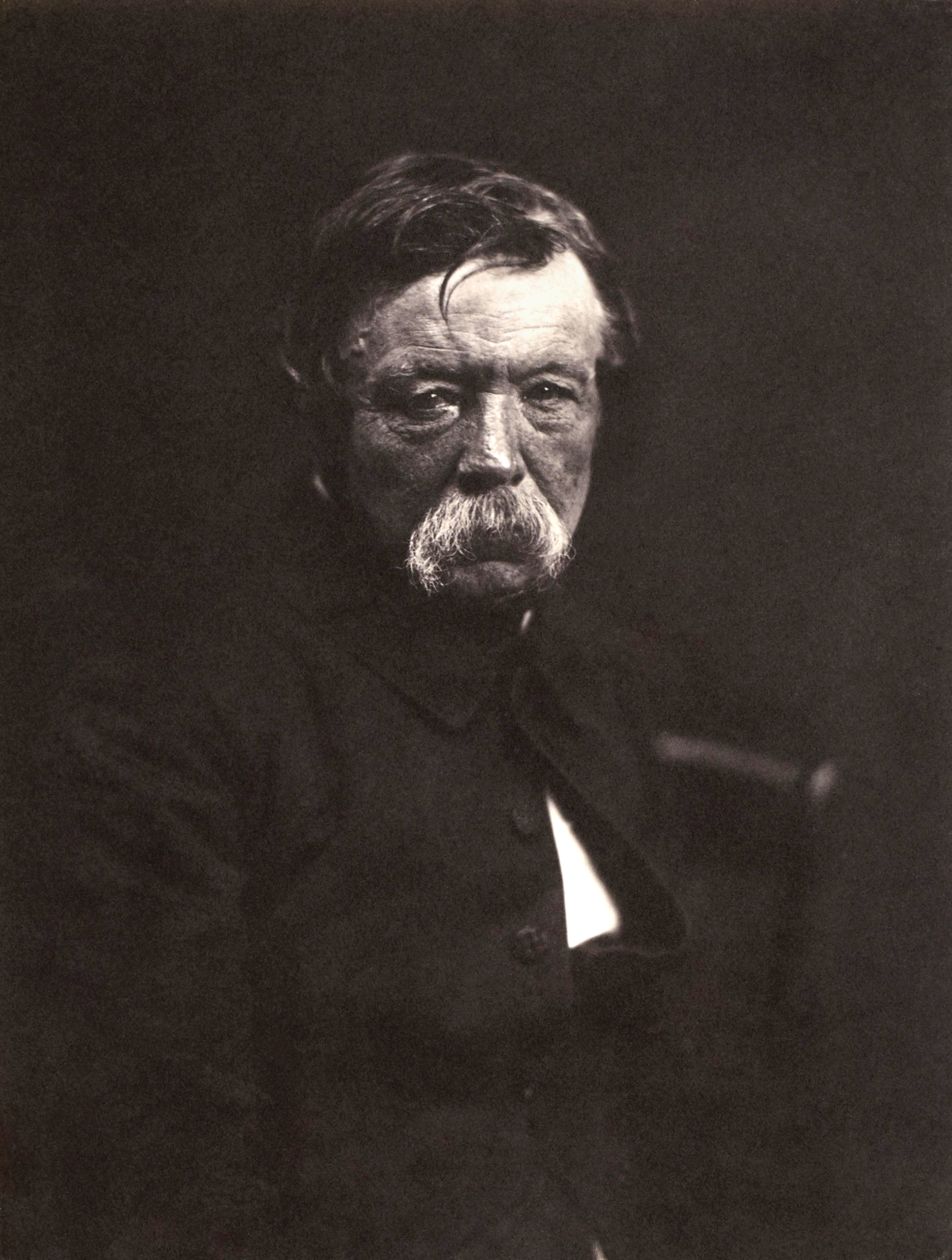 Pierre-Jean David d'Angers (1788 - 1856), french sculptor, engraver and medallist.